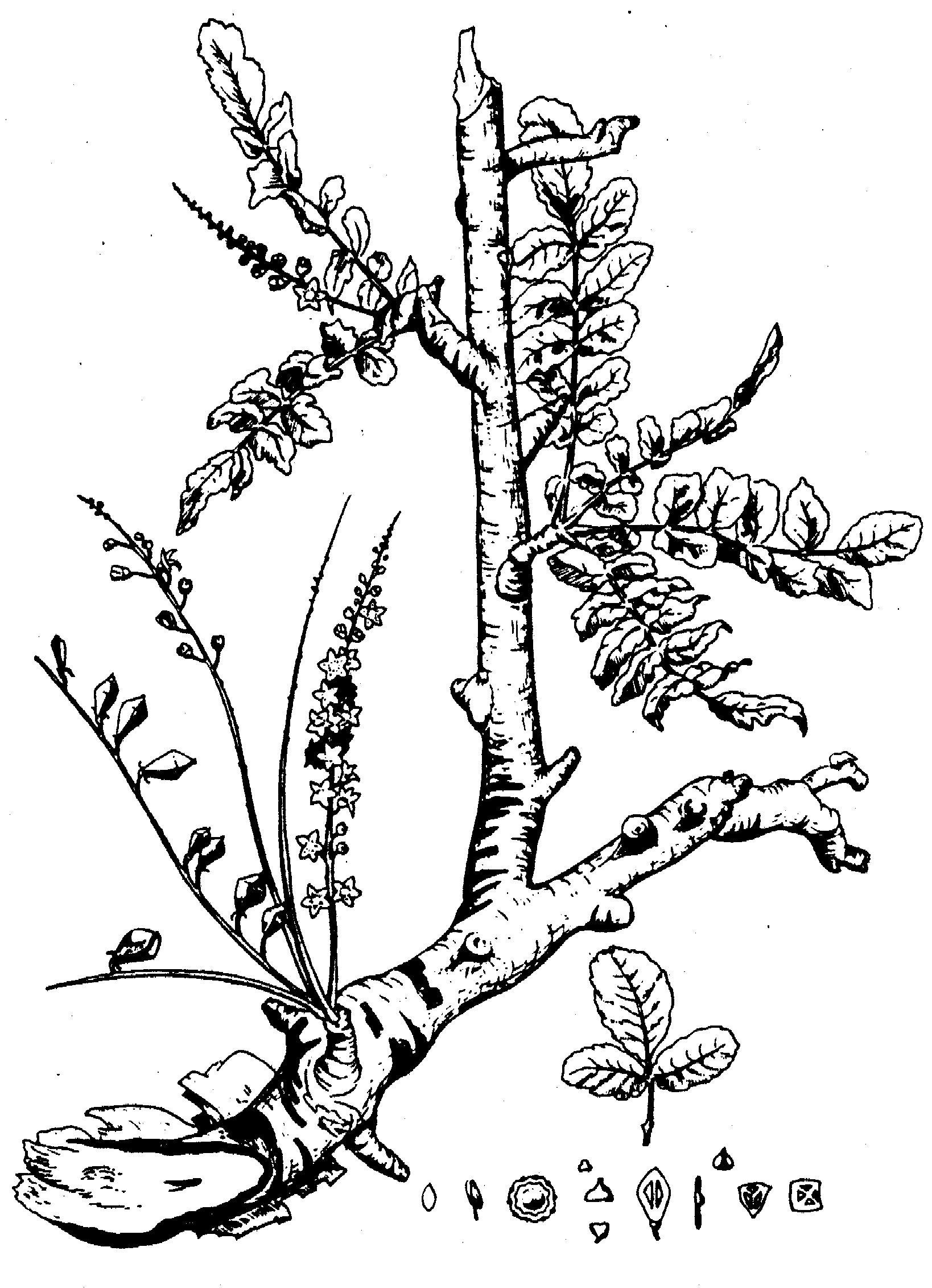 Boswellia sacra, a figure in Carter,s book (1847)